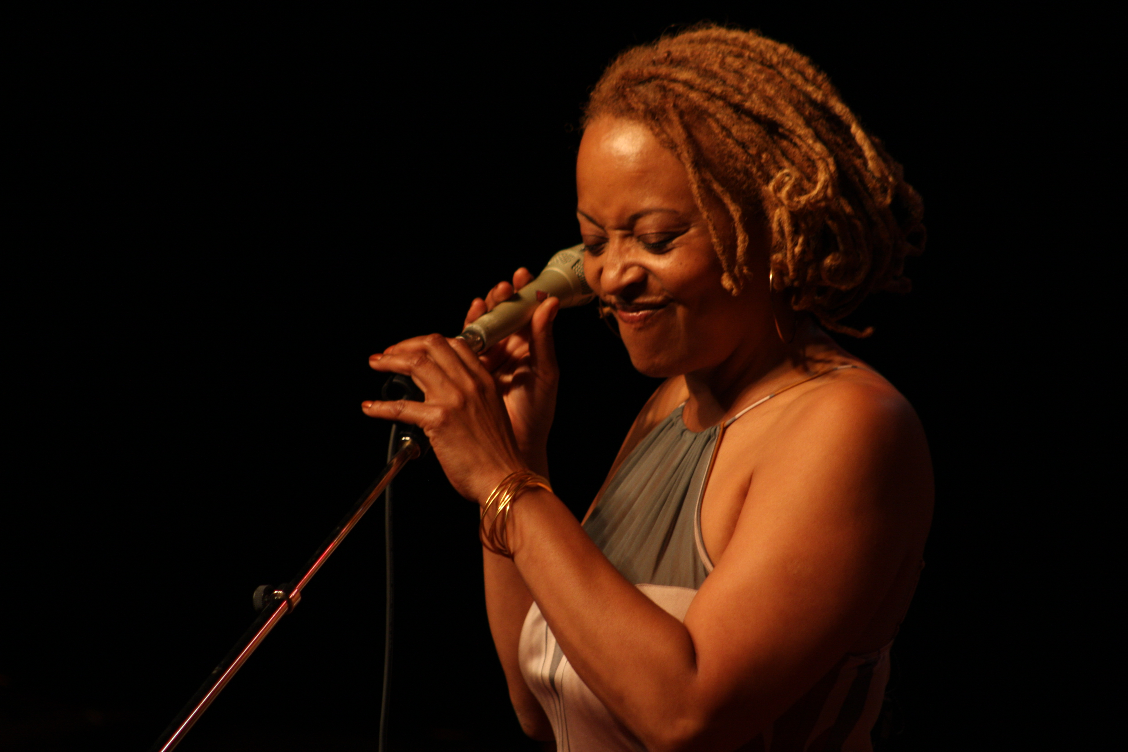 Cassandra Wilson, Ottawa Bluesfest 2008